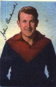 Photo of John Beckwith taken in 1954